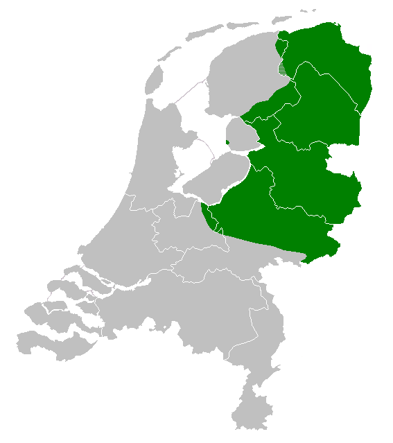 map of Low Saxon spoken in the Netherlands